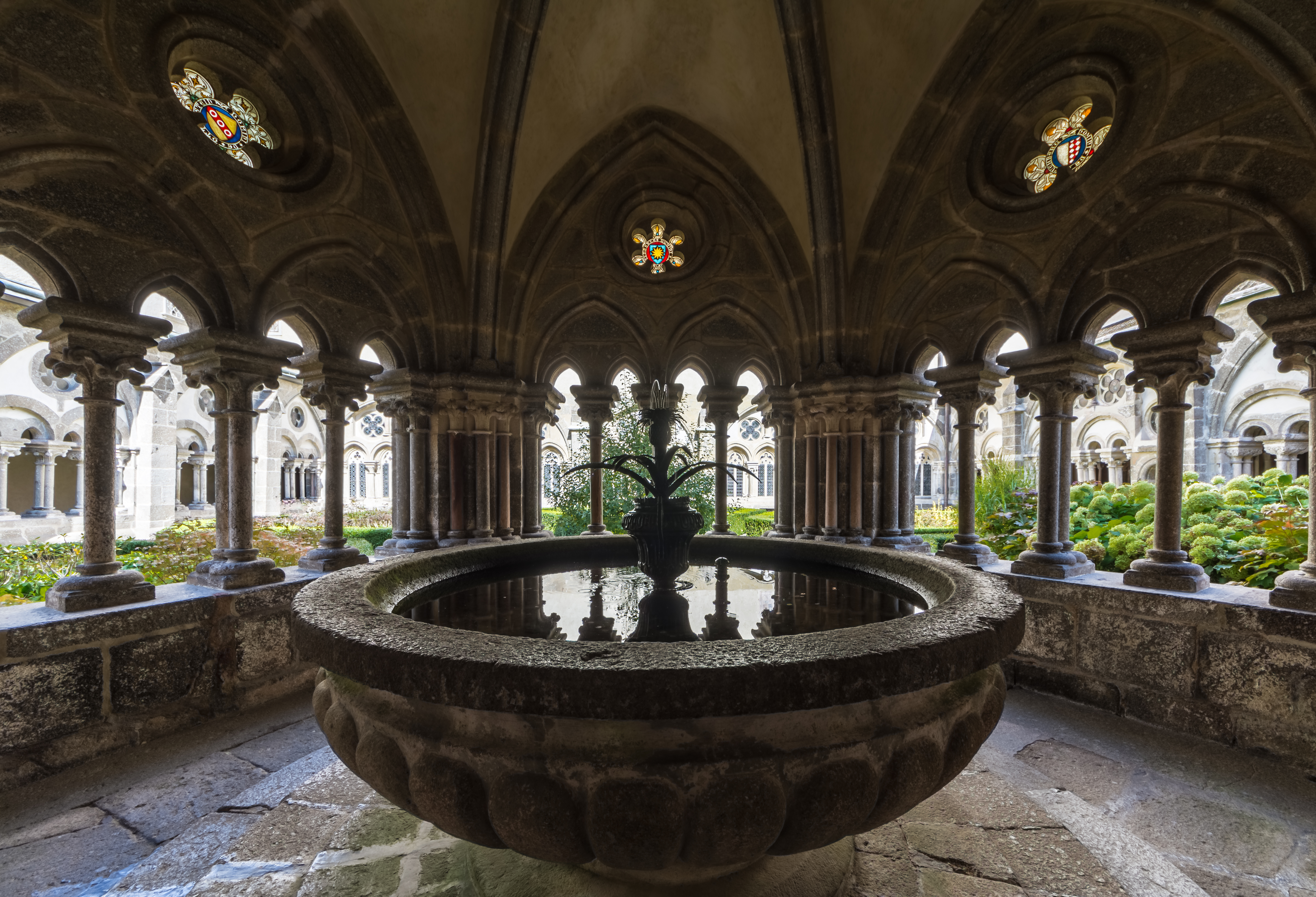 Lavatorium at the cloister of Zwettl Abbey, Lower Austria